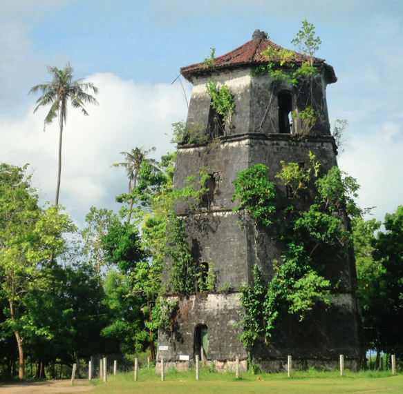 Panglao watchtower, Bohol